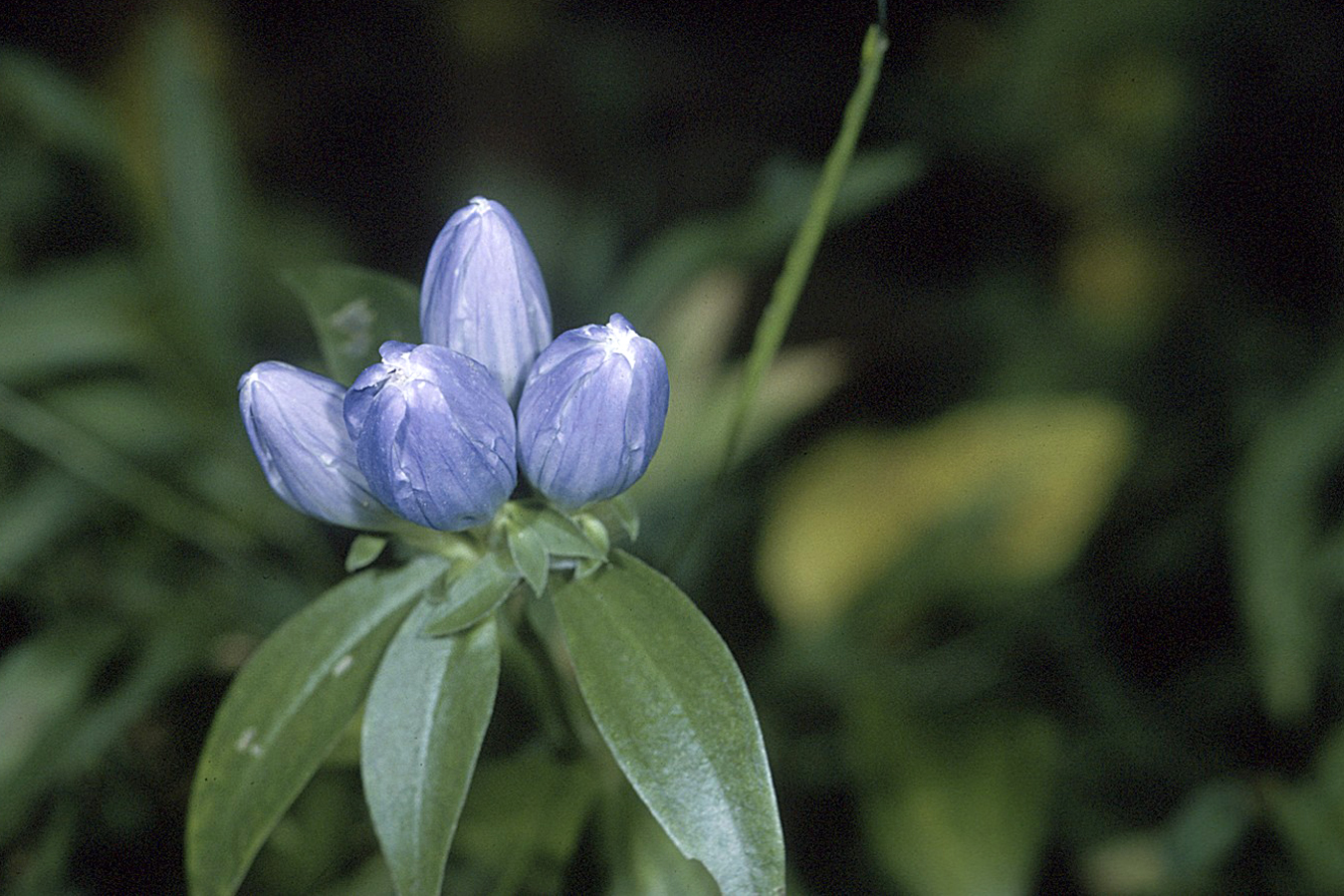 Bottled Gentian (Gentiana clausa)